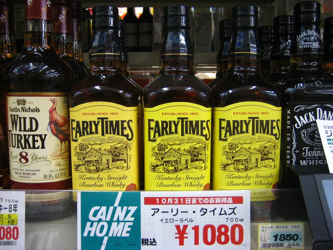 A bottle of Early Times Kentucky whisky for sale at a Cainz Home store in Aizuwakamatsu, Fukushima Prefecture, Japan. Picture was taken with a Canon Power Shot SD450 Digital Elph camera and modified using a Paint Shop program on a laptop computer.